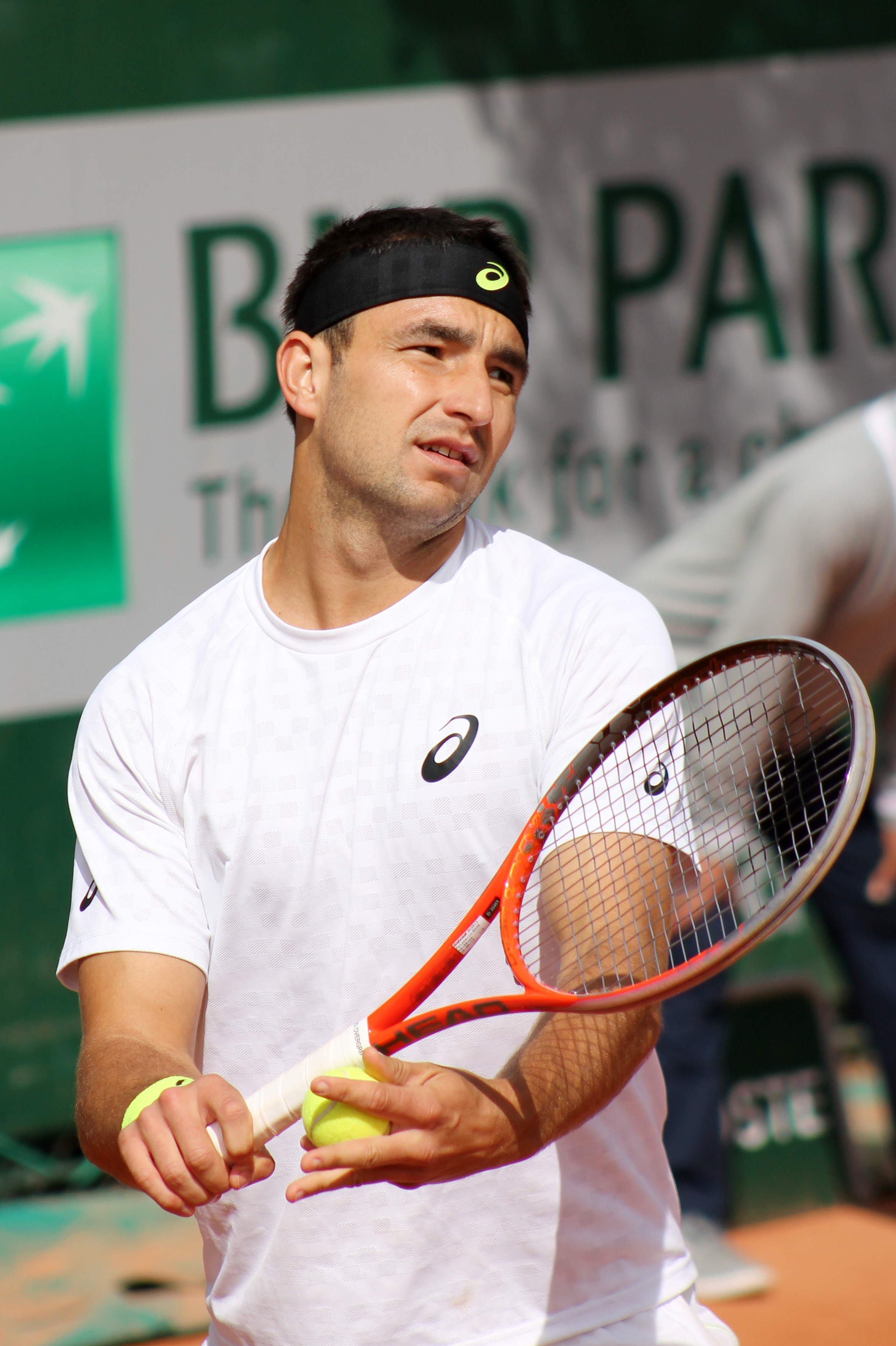 Marinko Matosevic playing at Roland Garros 2013